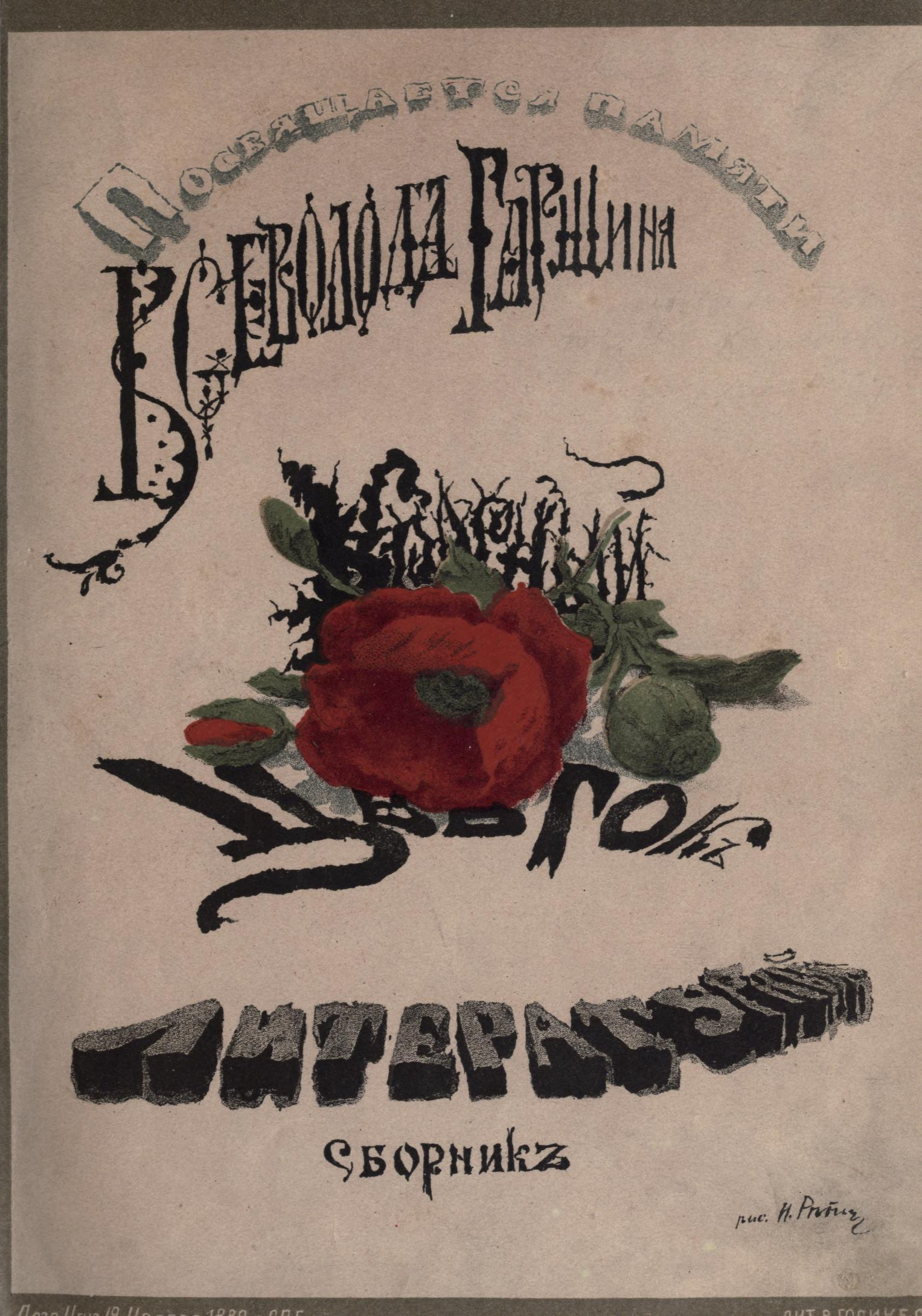 Illustration of Garshin's story The Red Flower